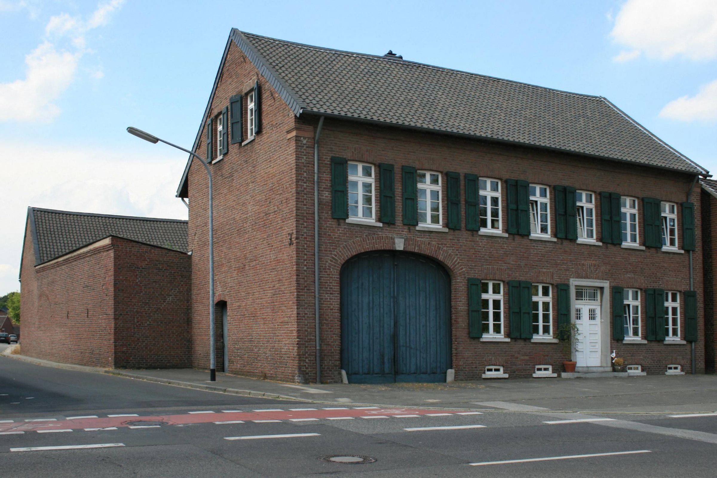 Cultural heritage monument No. H 104 in Mönchengladbach